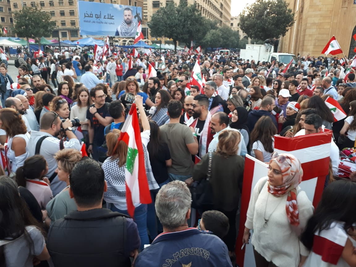 File:Lebanese protests Beirut 22 November 2019